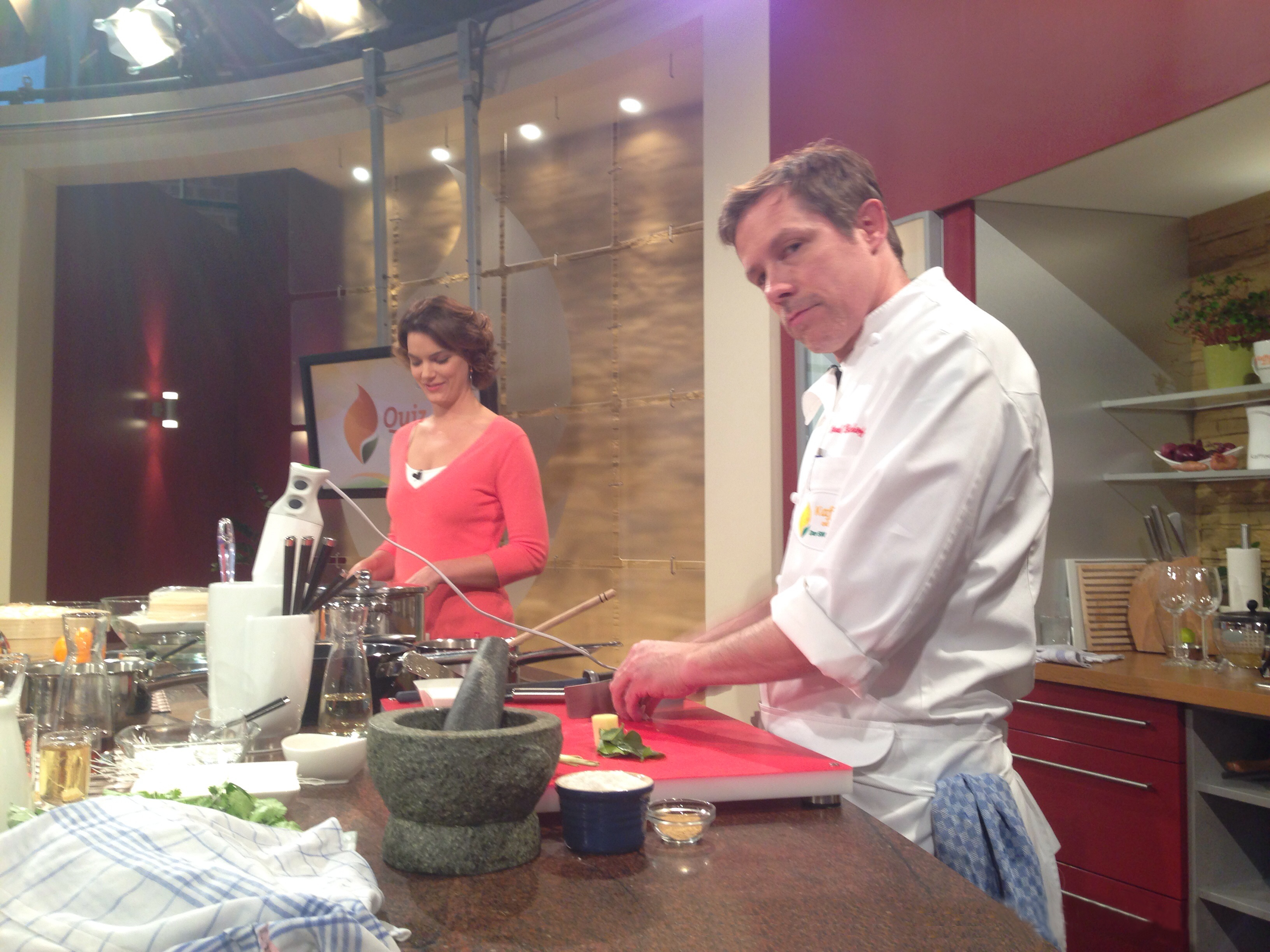 Bernd Bachofer is cooking